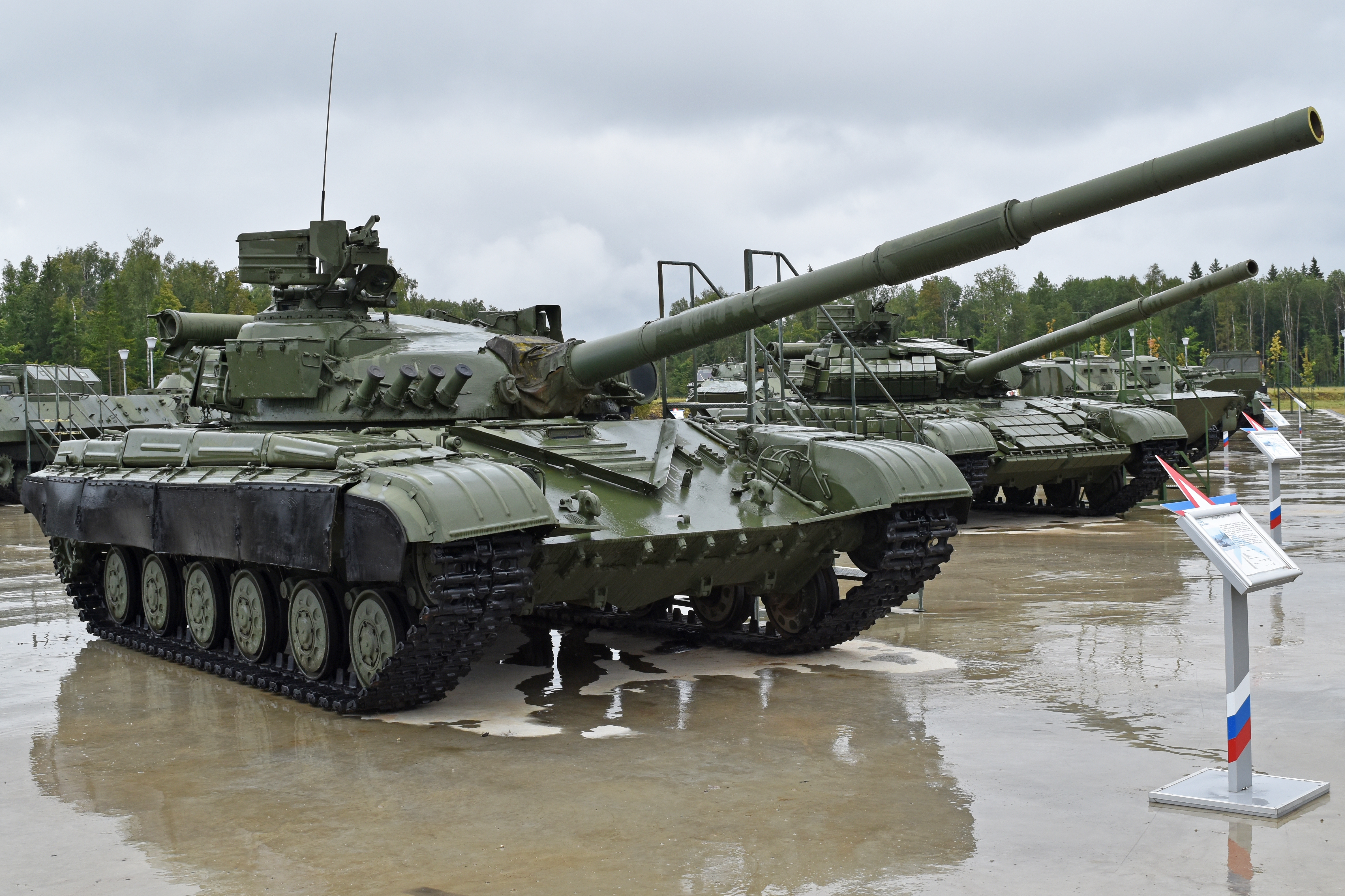 Soviet 2nd Generation Main Battle Tank Manufacturer:- Malyshev Factory Built:- 1963 to 1987 Total Production:- 13,000+ Main Armament:- 125mm 2A46-2 Smoothbore gun The T-64B had redesigned armour, 1A33 Fire-control system, 9K112-1 ‘Kobra’ ATGM system and the 2A46-2 gun, among other upgrades. The T-64B1 was project No ‘Obeikt 437’ (Object 437) and lacked the new fire-control system. On display in Area 1 of the Patriot Museum Complex. Park Patriot, Kubinka, Moscow Oblast, Russia. 25th August 2017